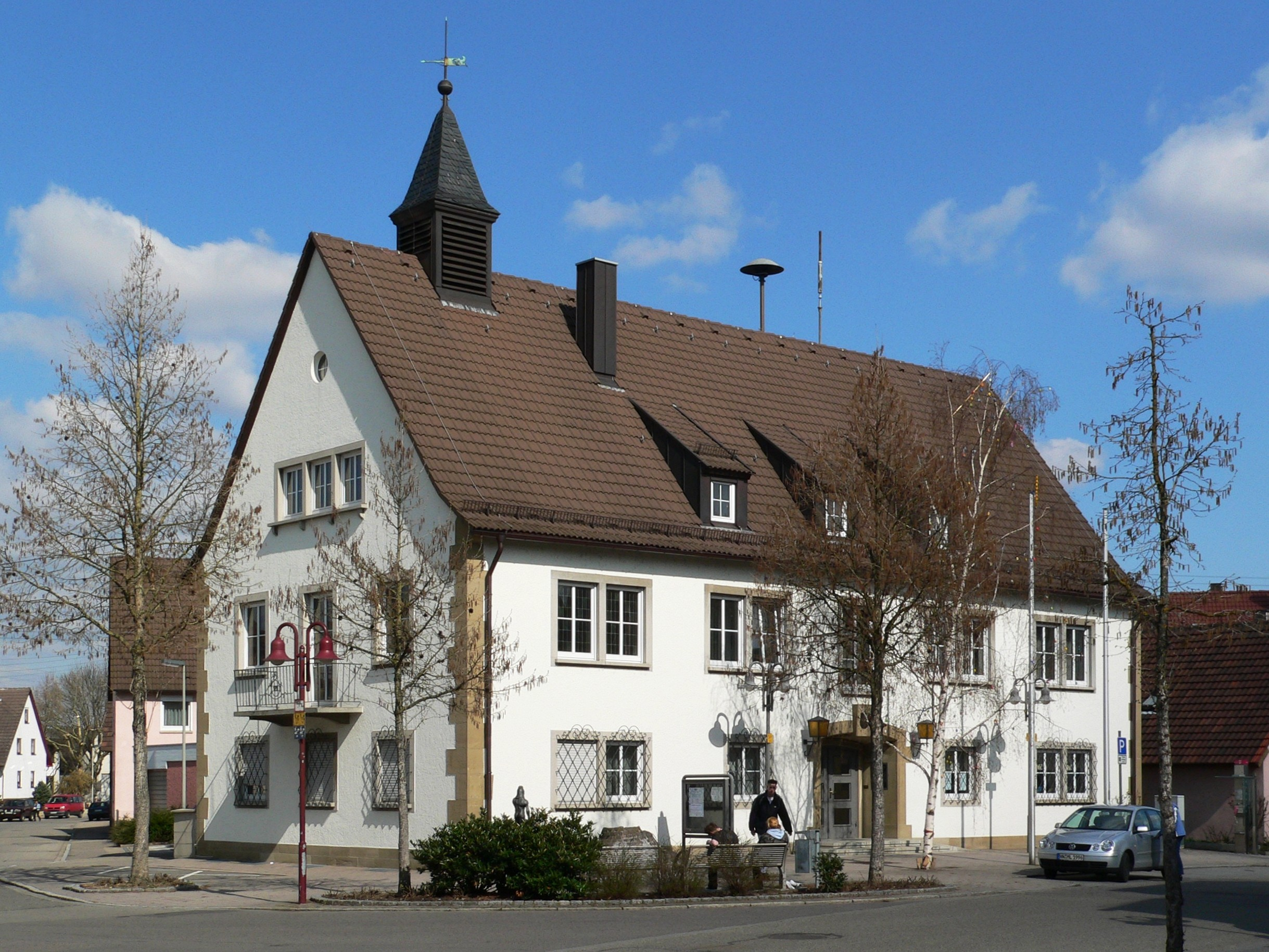 Guildhall of the small town Neckarsulm-Obereisesheim